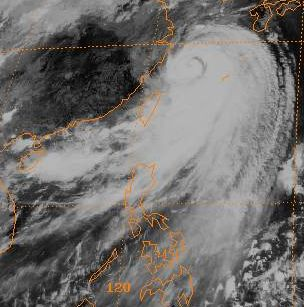 Typhoon Agnes